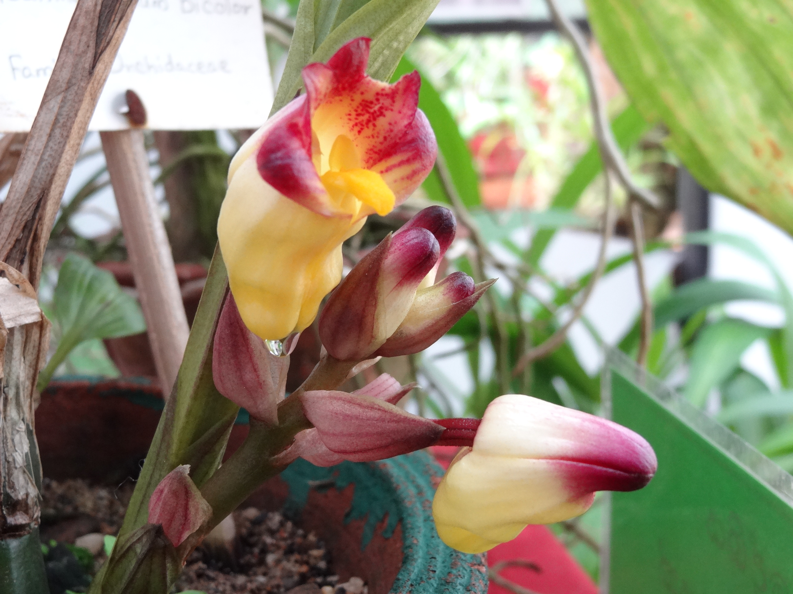 Orchids in the Botanical Garden of Peradeniya